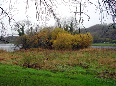 Bolin Island on Lough Gur Artificial island (crannog). Lowering the level of the lake in the 1800's has resulted in a marsh area between lake and shore